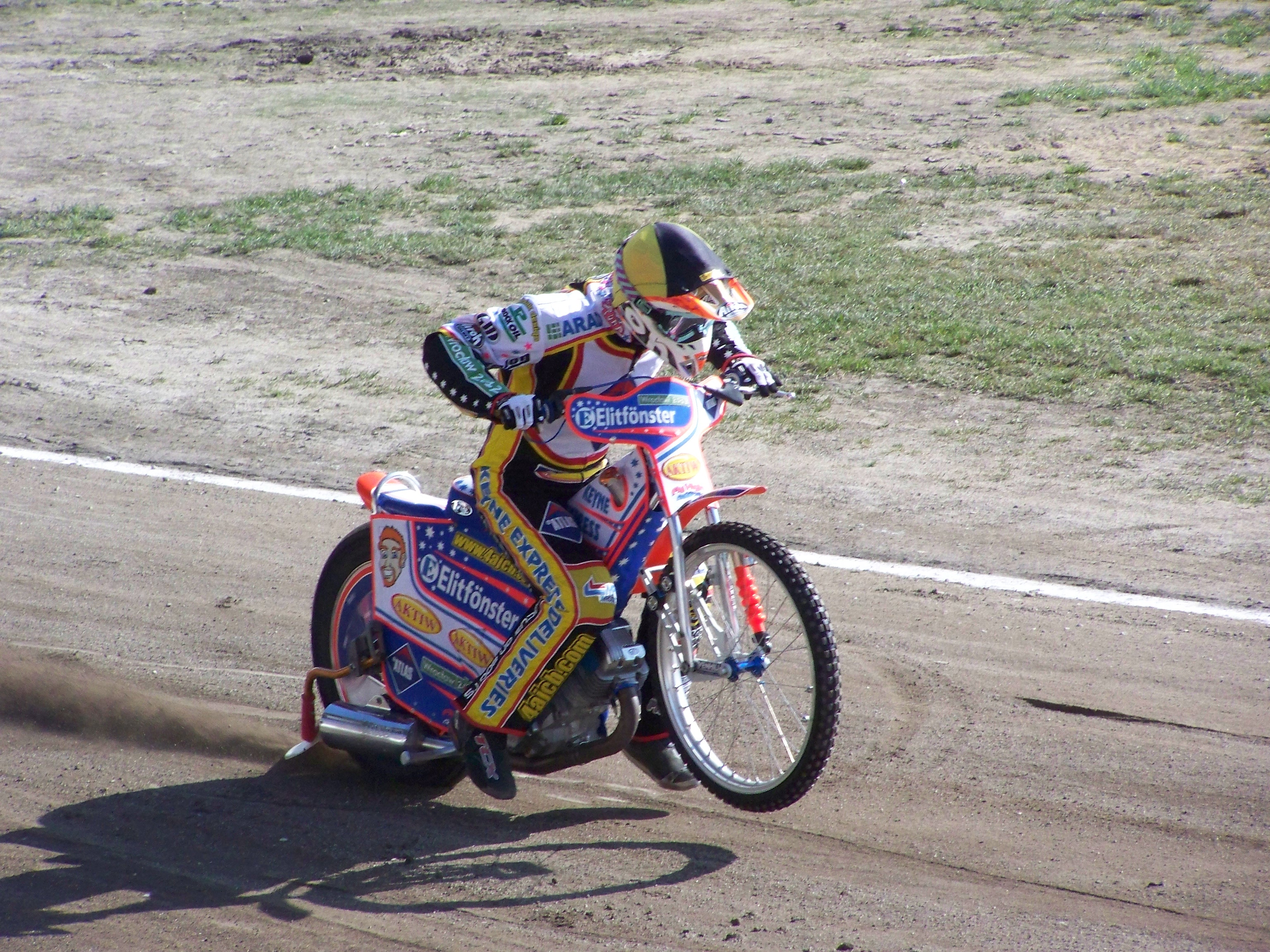 Australian speedway rider Jason Crump as a rider of polish team Atlas Wrocław (season 2009).